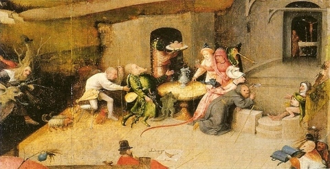 The Temptation of Saint Anthony, detail.